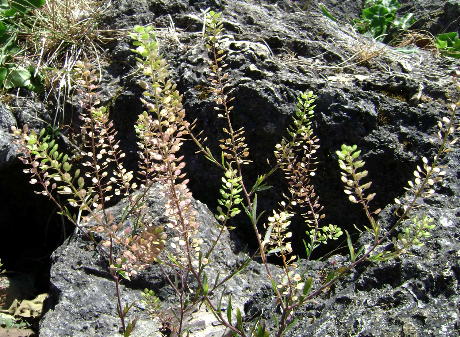 Lepidium virginicum; along the Tongan foreshore